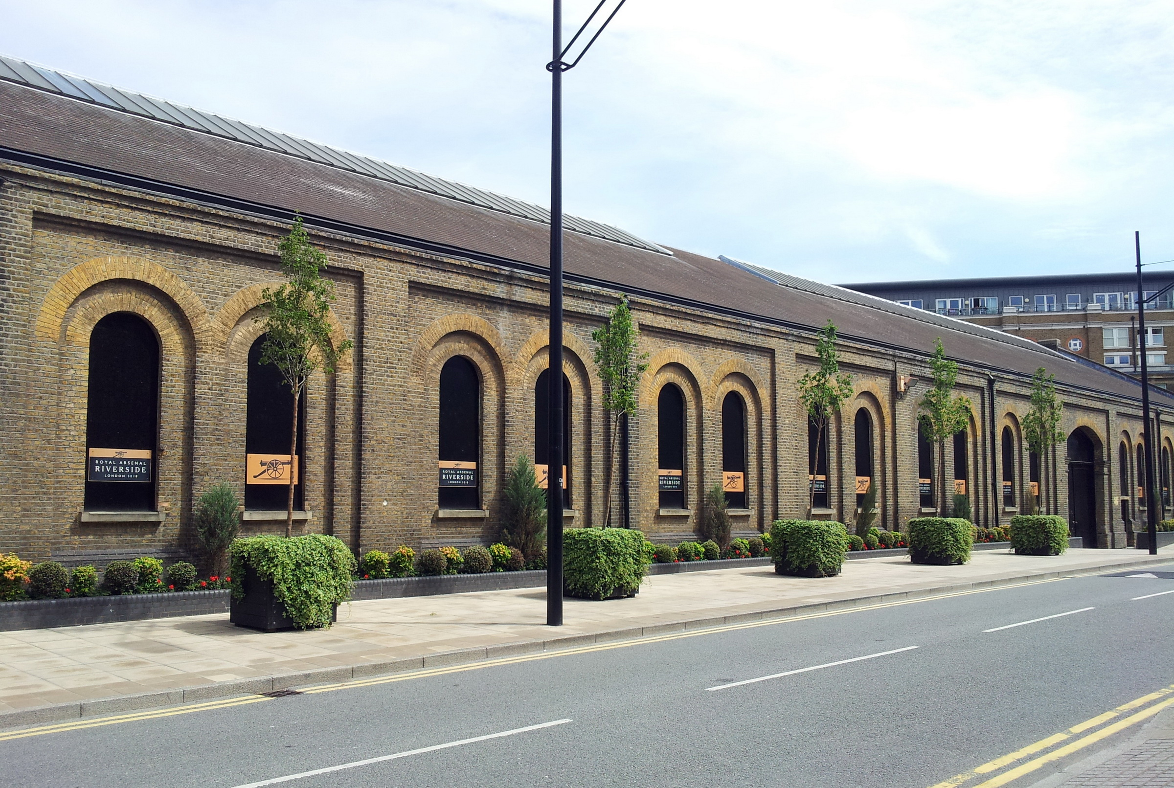 View towards the northeast of old warehouses along Duke of Wellington Avenue in Royal Arsenal Riverside, Woolwich, South East London.